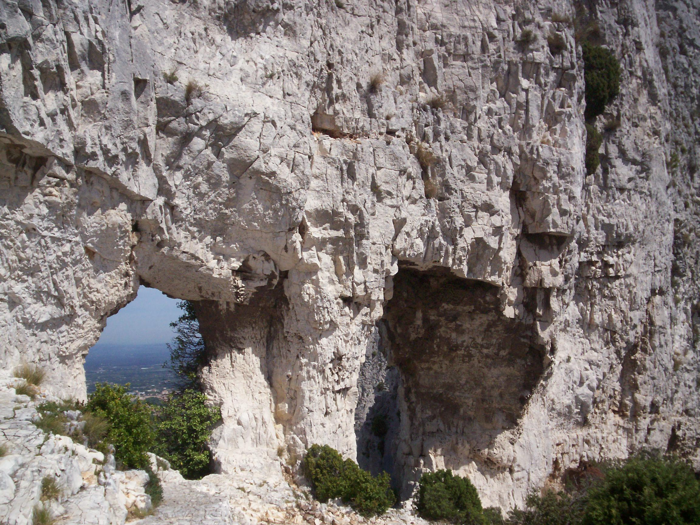 The Deux Trous near to Saint-Rémy-de-Provence